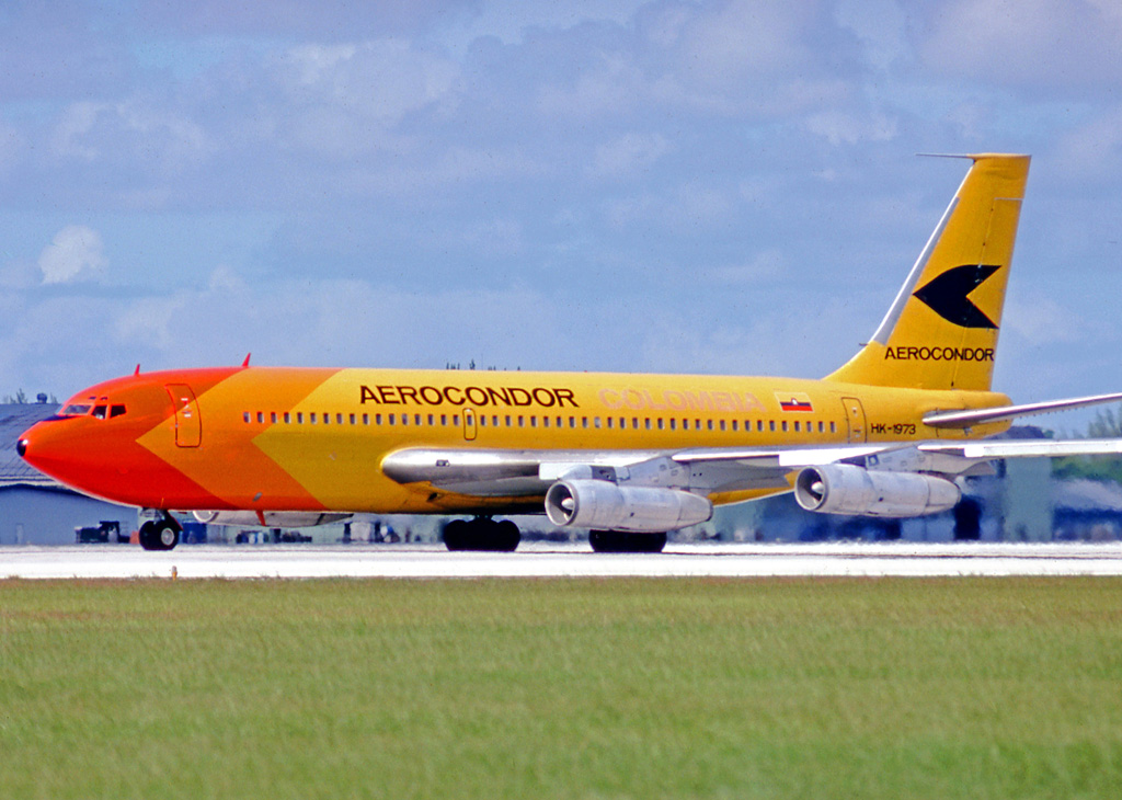 Boeing 720-023B of Aerocondor Colombia at Miami Airport in 1975